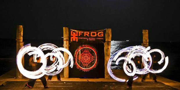 Pa-li-Tchi fireshow on FROG festival, 2009.